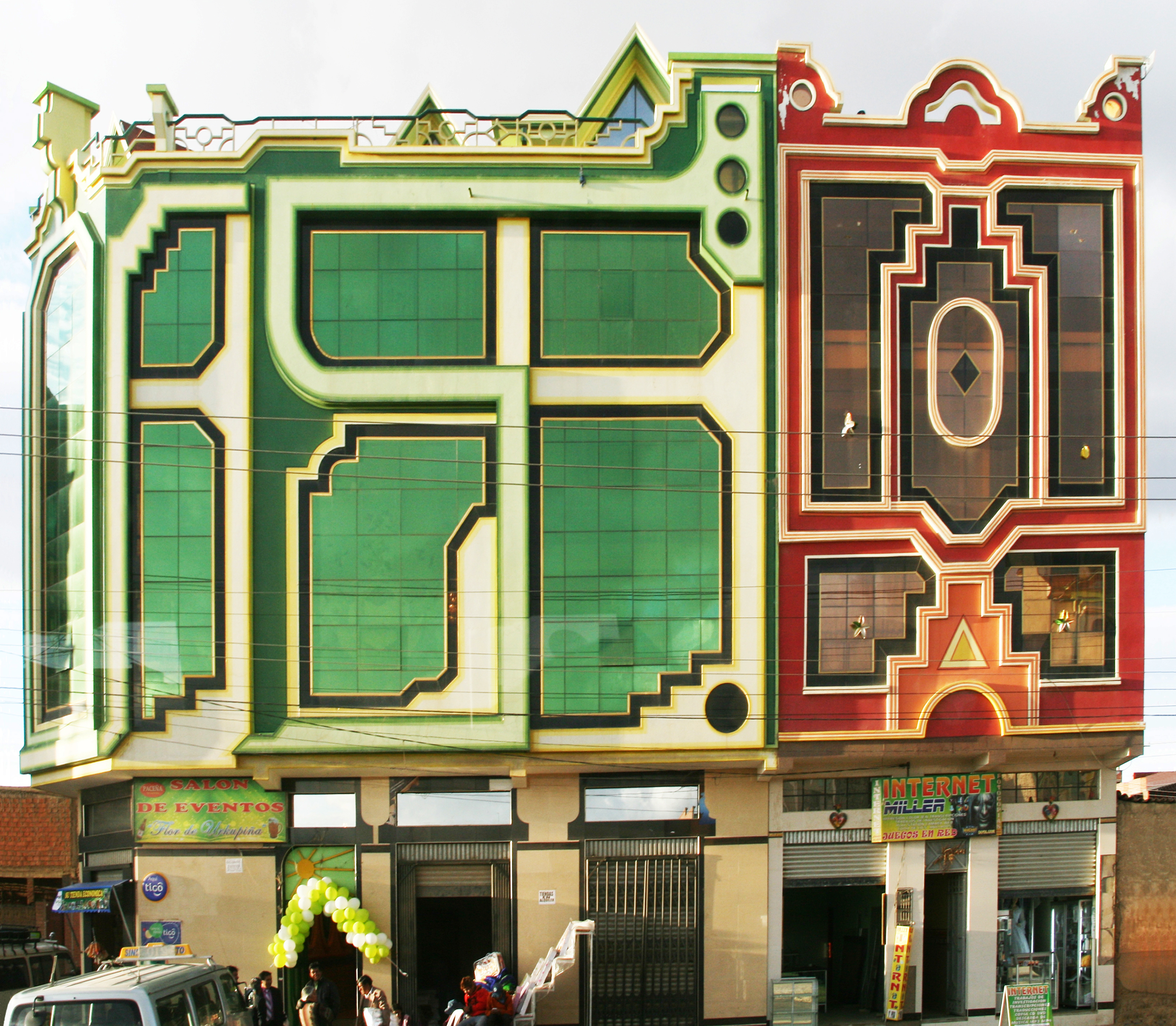 Typical "Cholet" architecture of Bolivia, seen in El Alto, La Paz, Bolivia (2014).